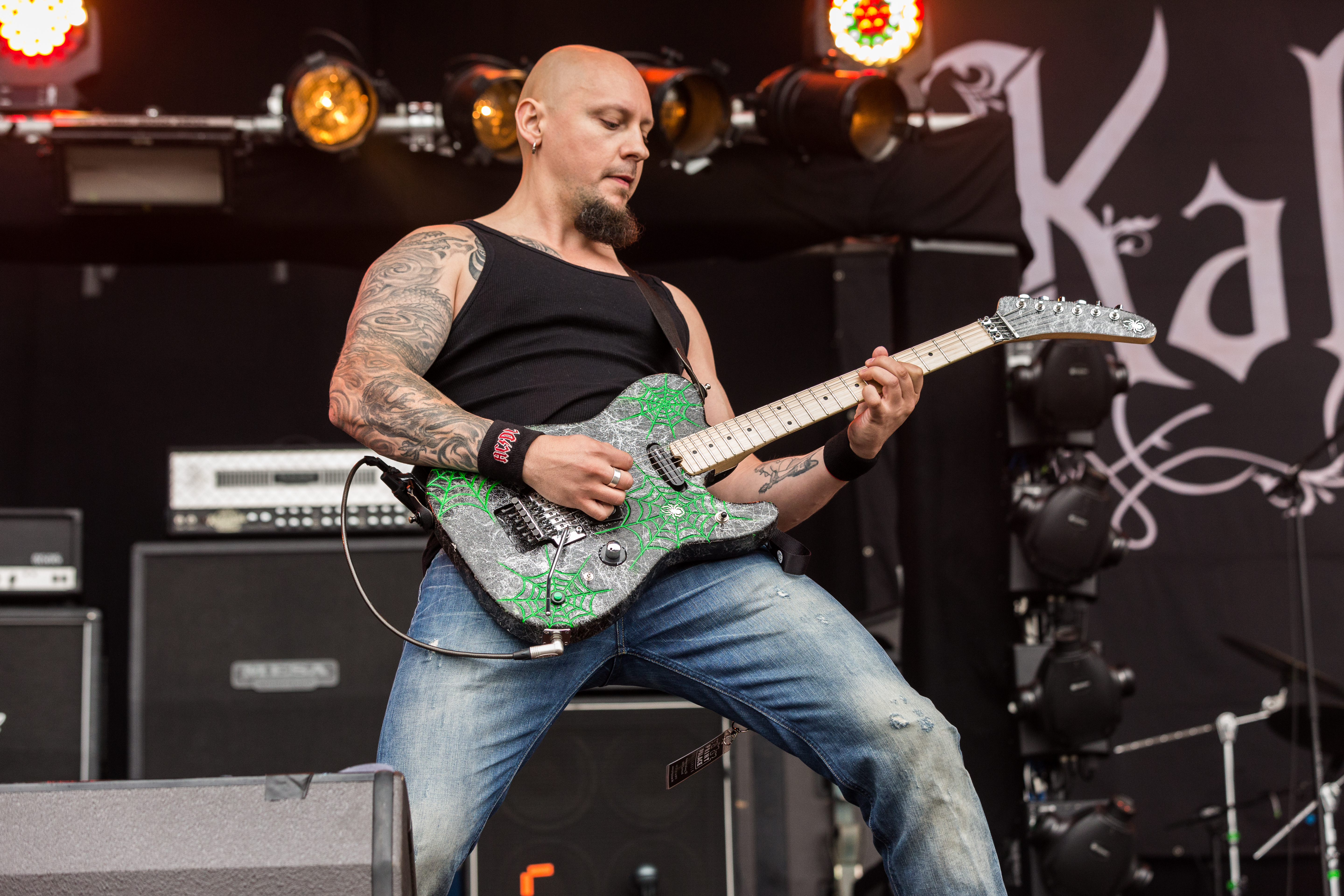 The Finnish melodic death metal band Kalmah at the Party.San Metal Open Air 2017 in Obermehler-Schlotheim/Germany.